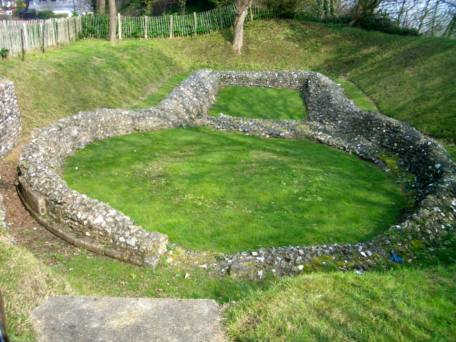 Templar Church, Dover, on the Dover Western Heights, discovered in 1806 during construction of the fortifications there.